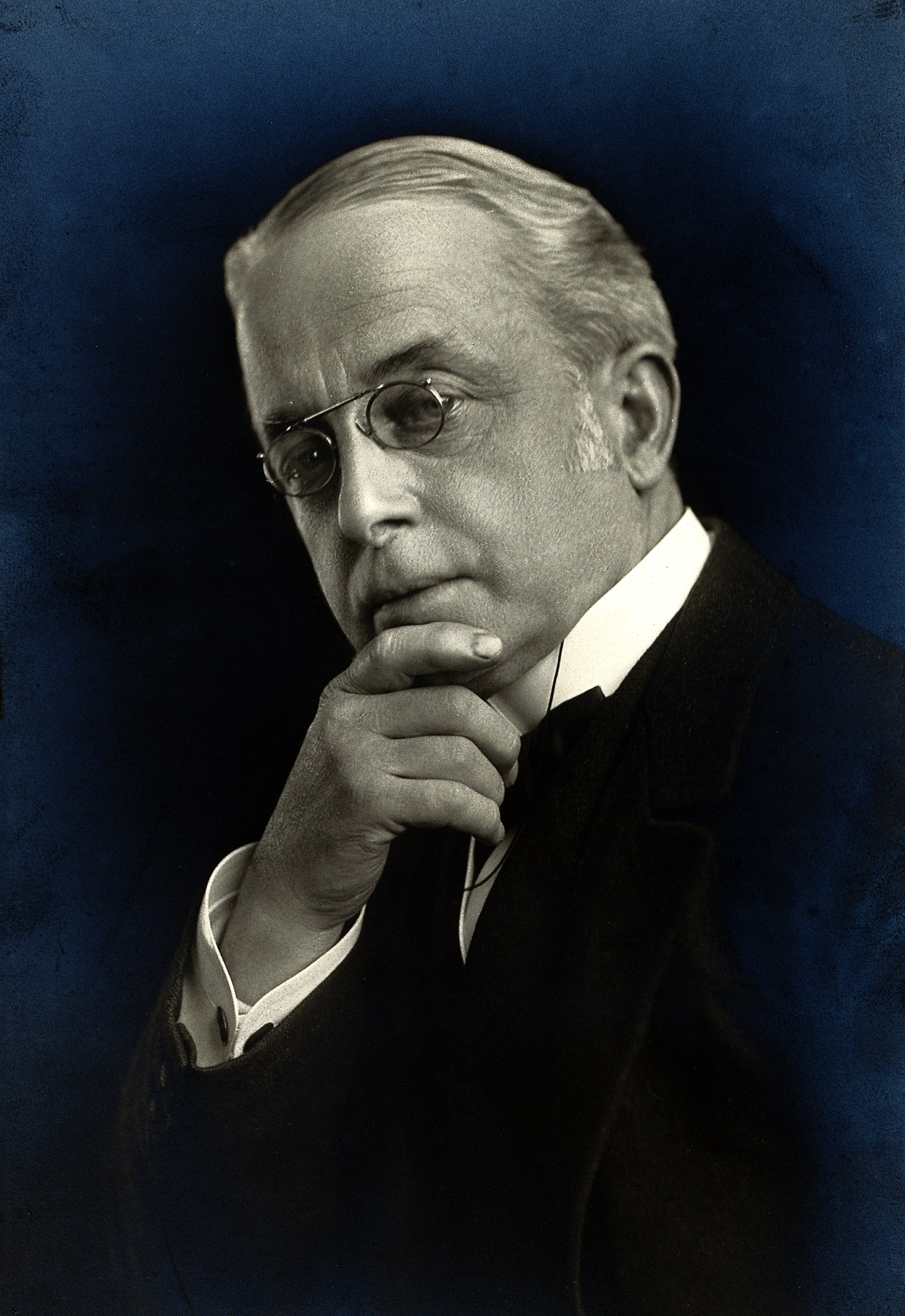 James Alexander Lindsay. Photograph by Elliott & Fry. Iconographic Collections Keywords: portrait photographs